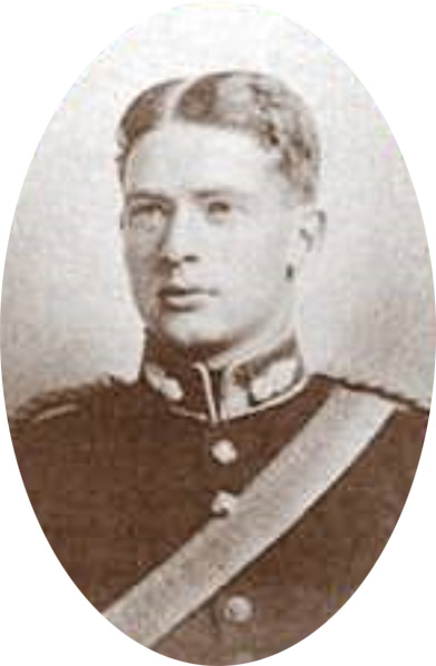 Colonel Archibald Chrisie of the Royal Flying Corps, 1909